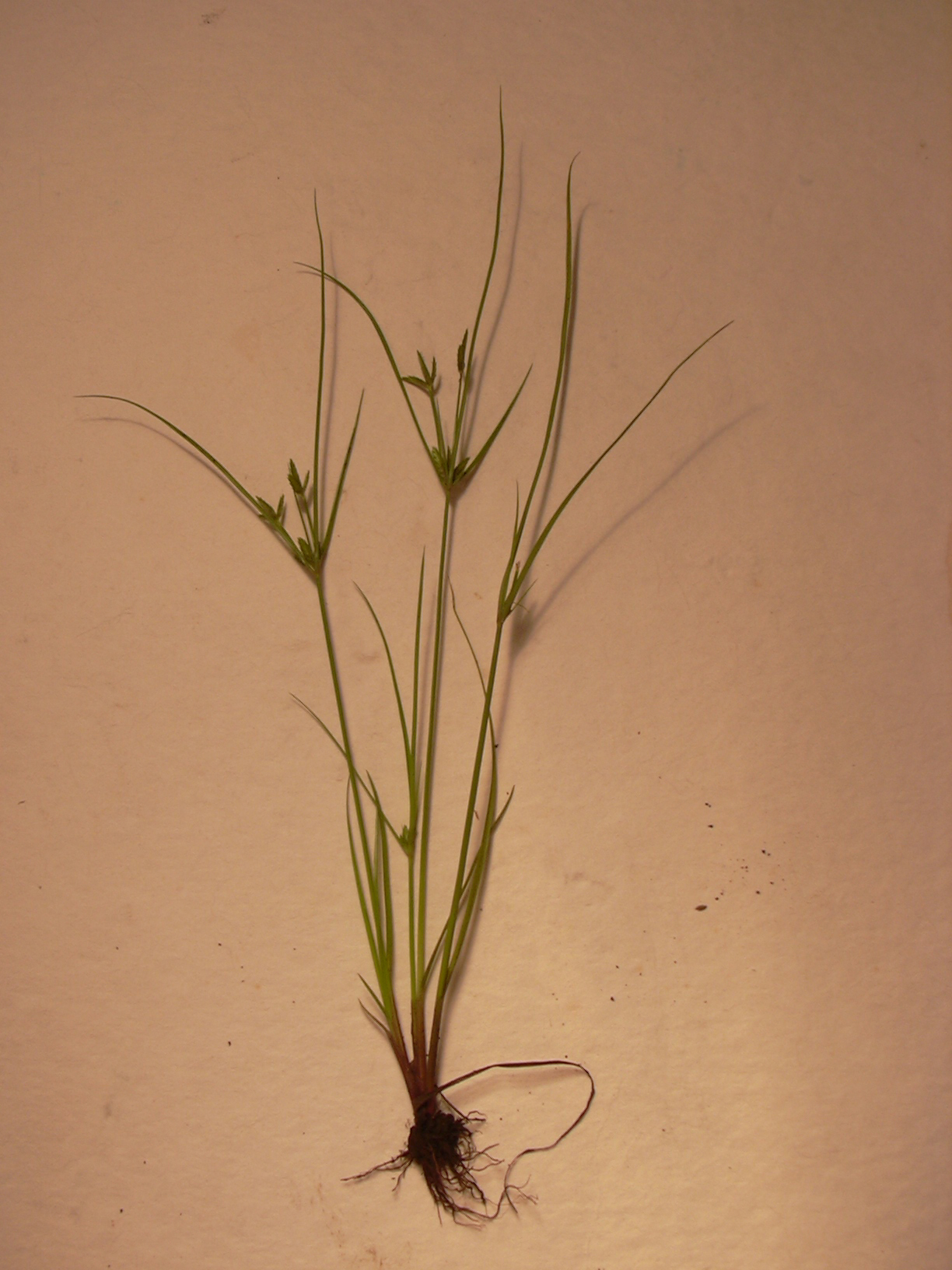 Cyperus compressus (plant). Location: Maui, Hana Hwy